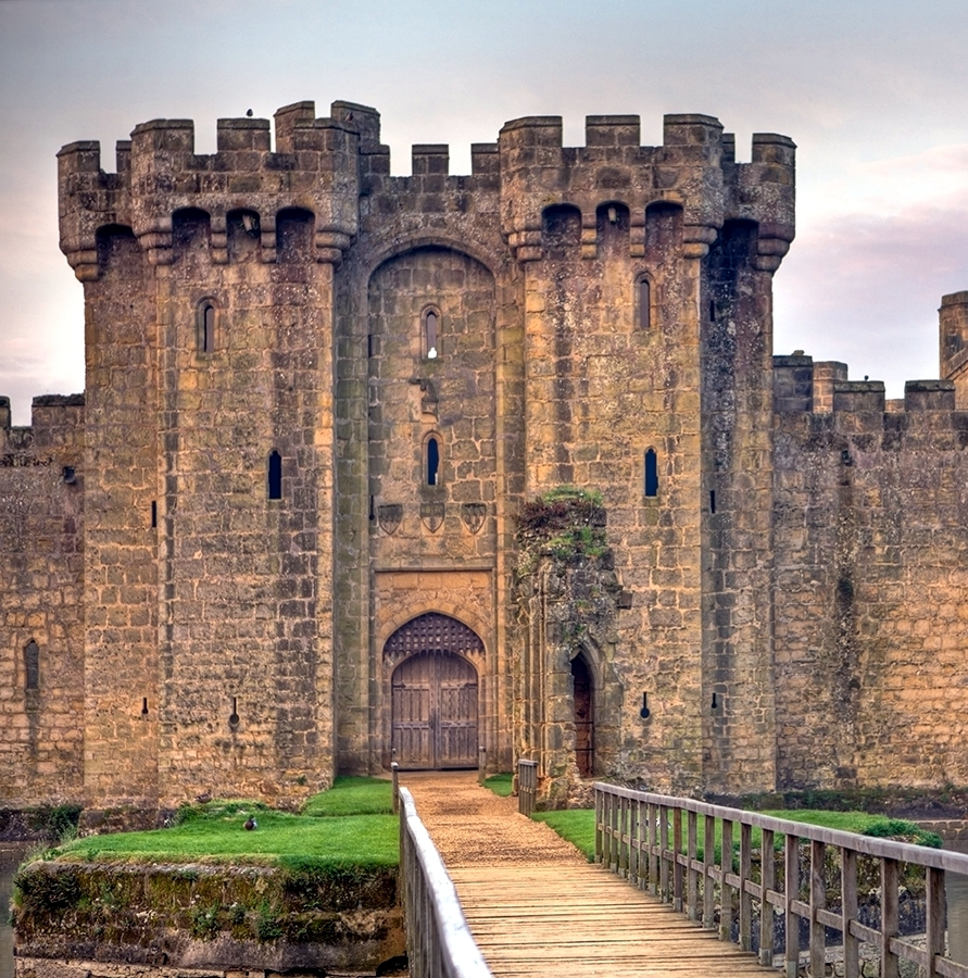 The gatehouse of Bodiam Castle in East Sussex, England